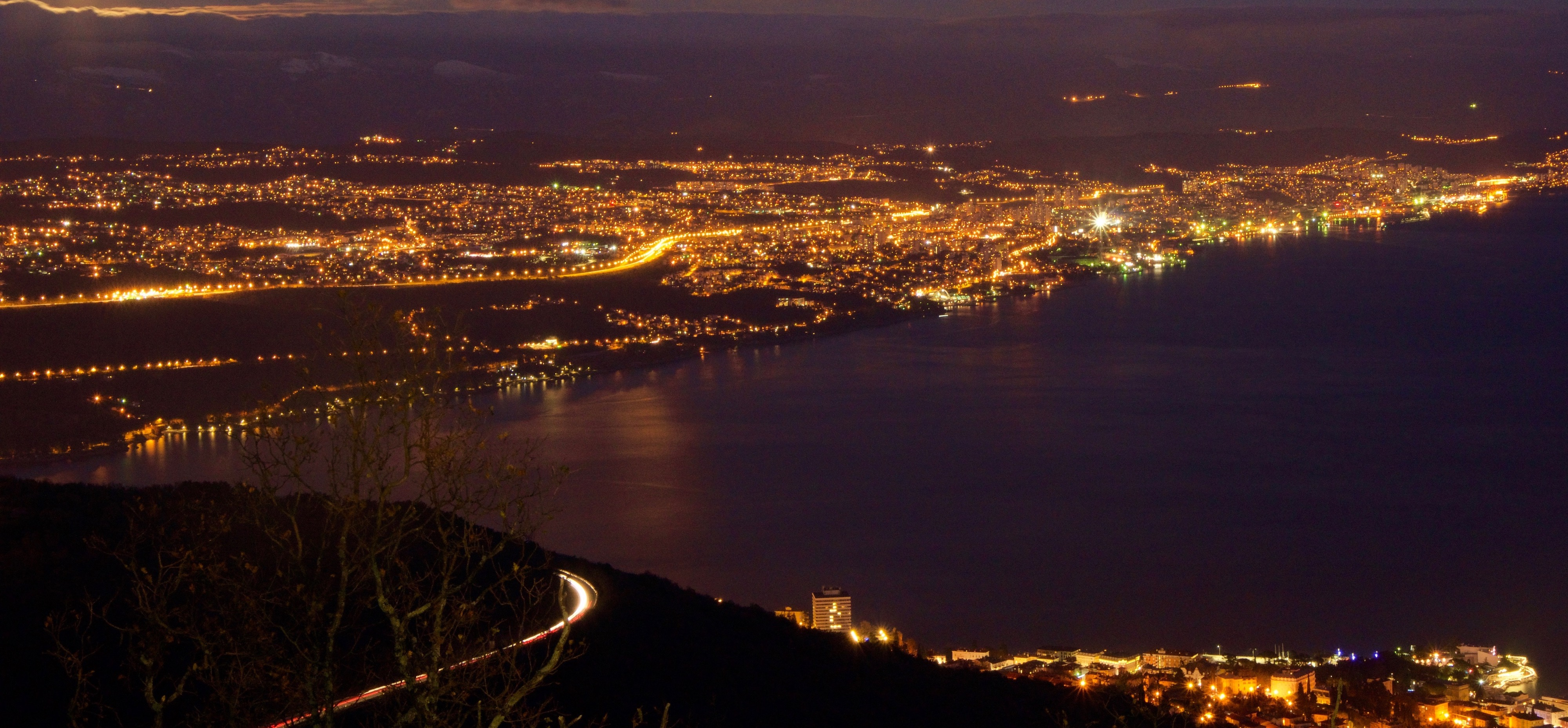 Rijeka Bay at night